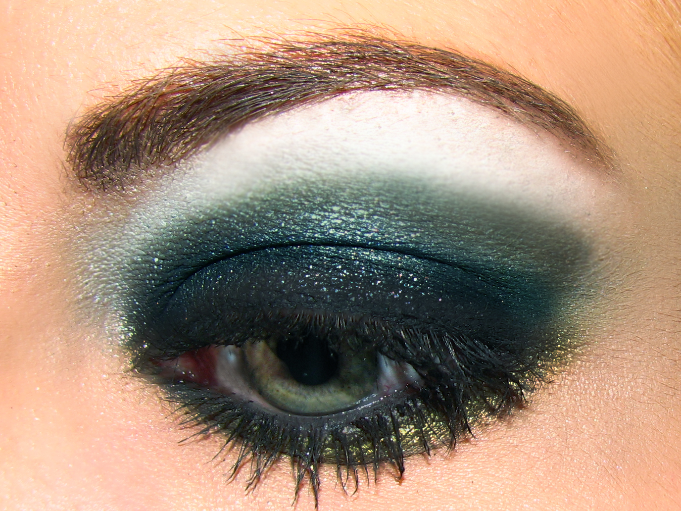 Urban Decay Primer Potion Sin: M.A.C. Luna cream color base; M.A.C. Graphito Paint; M.A.C. Carbon eye shadow; M.A.C. Bell Bottom Blue Pigment; M.A.C. Lucky Green eye shadow; M.A.C. White Pigment; Jordana Black eye liner khol; Maybelline Define-A-Lash mascara Very Black.